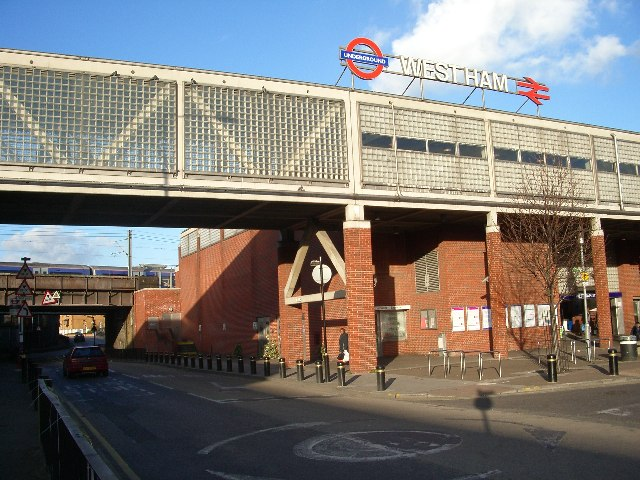 A sunny day in West Ham. West Ham station, London E15. The glazed bridge links the station on the right, serving the District and C2C lines (who thinks up these names ?) with platforms on the left serving the Jubilee and North London lines. Oh, look, there's a C2C train crossing the bridge behind.